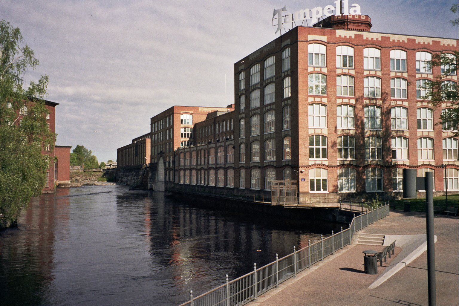 The former factory of Tampella alongside Tammerkoski rapids in Tampere, Finland.